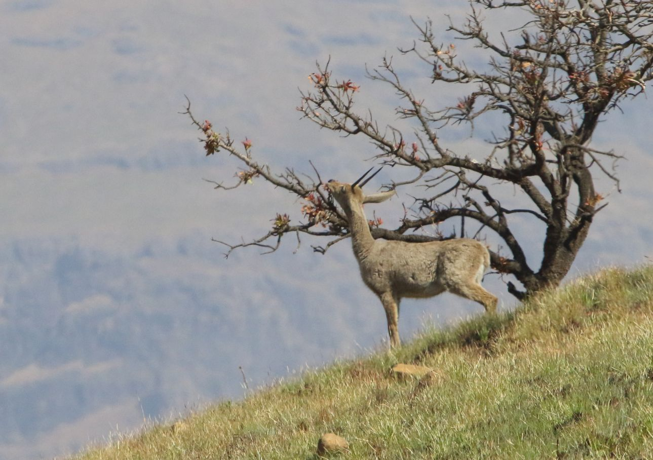 Male Grey Rhebok Pelea capreolus browsing from a Protea caffra tree; Mikes Pass, KwaZulu-Natal Drakensberg, South Africa.